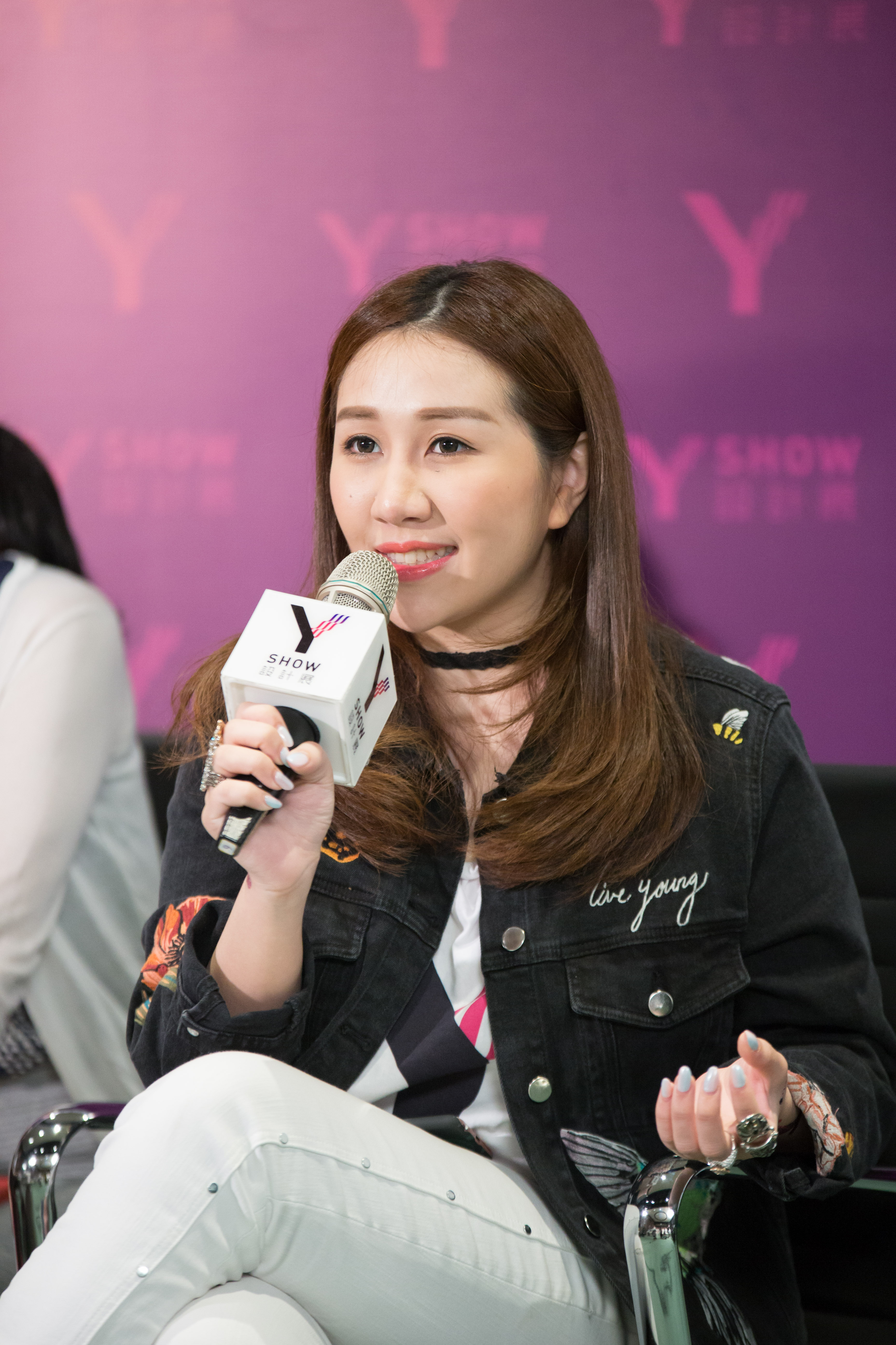 Sabrina Ho Chiu Yeng speaking at Y-Show press conference 2016